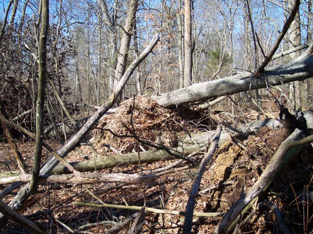 Downed trees from an EF1 tornado in Fentress County, Tennessee on February 11, 2009